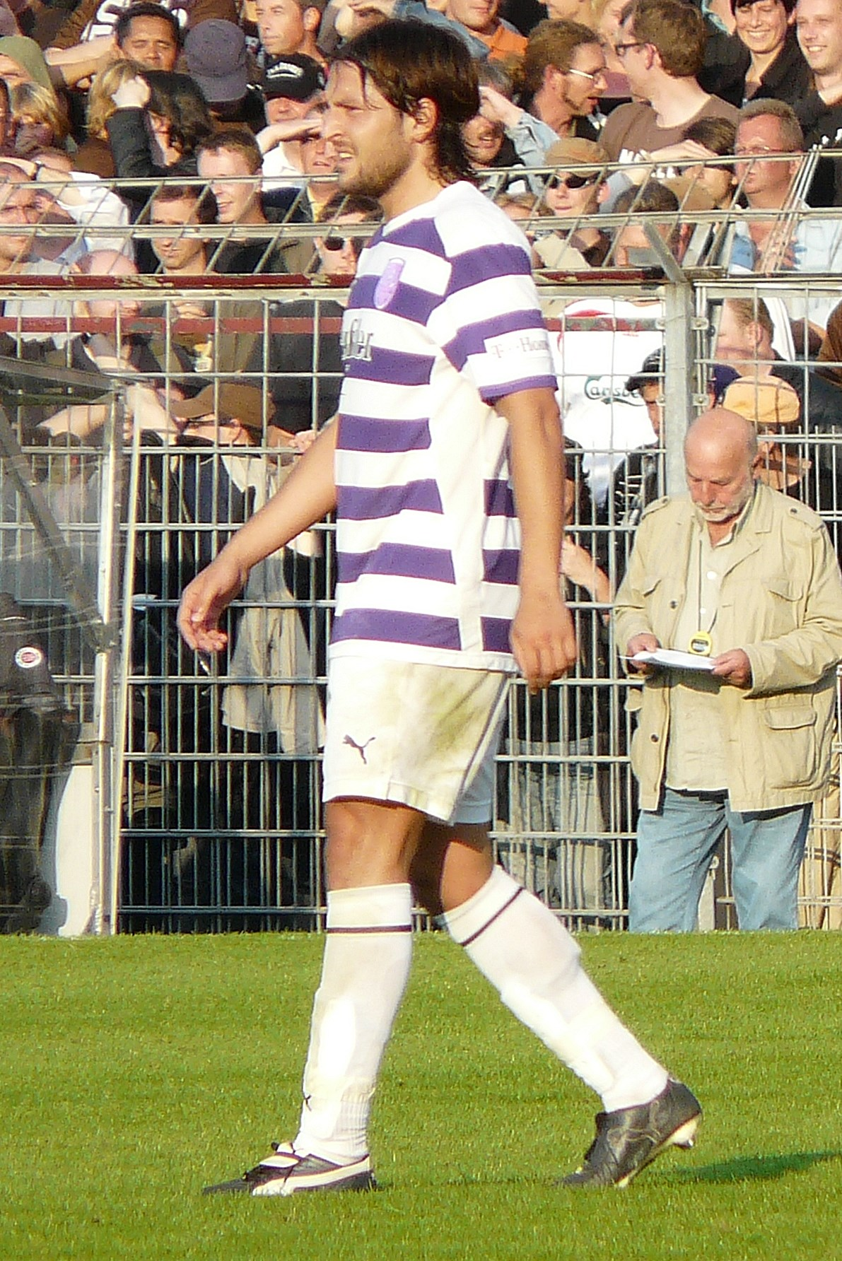 Gaetano Manno as Player from VfL Osnabrück